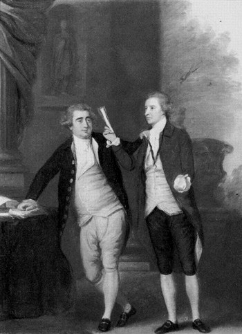 Portrait of Edmund Burke (right) and Charles James Fox (left). Oil on canvas.